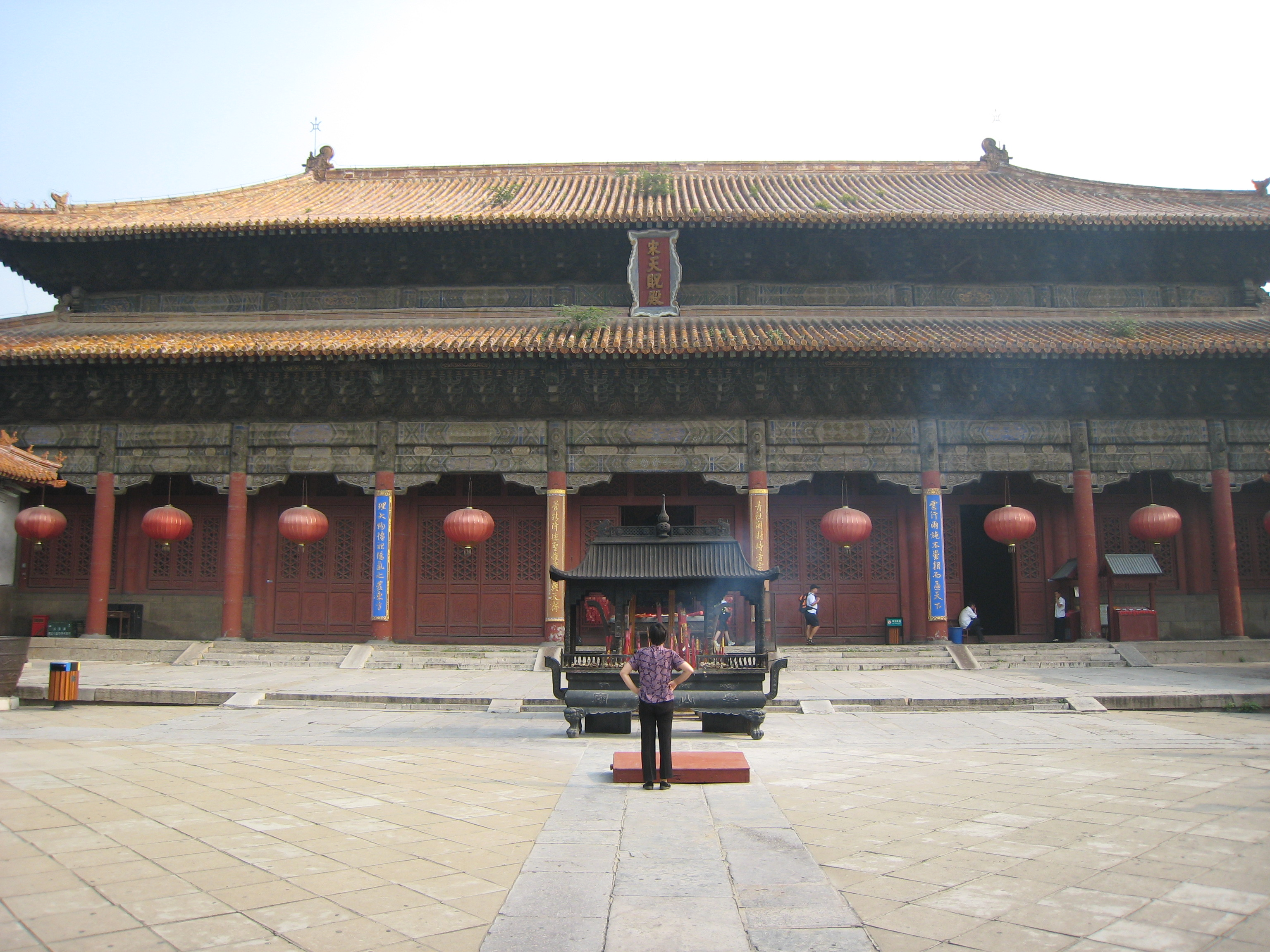 Dai Temple in Mount Tai, Tai'an, Shandong, China